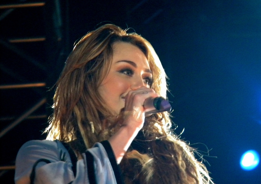 Pop singer Miley Cyrus performing in São Paulo, Brazil as part of her Gypsy Heart Tour in 2011.